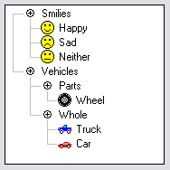 An example of a tree view (computing GUI widget). This is not a screenshot of a real program - I just drew it, and it's meant to look simple and generic.